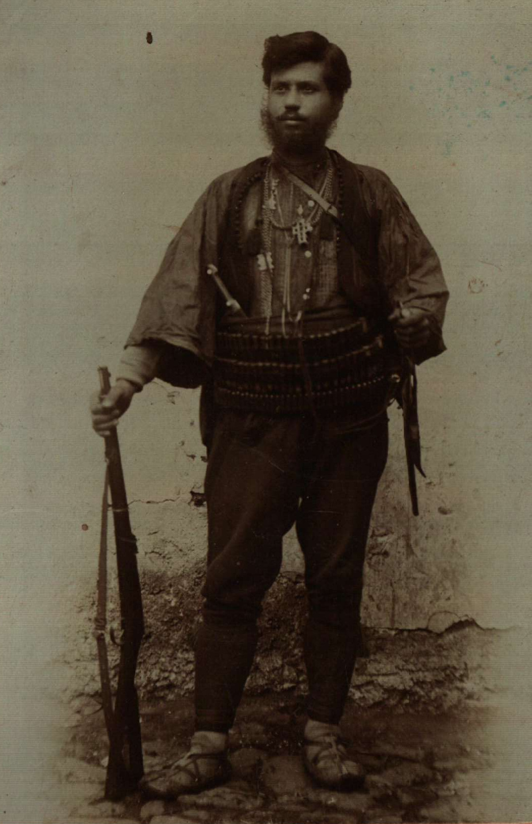 Lazar Tomov (1878-1961)